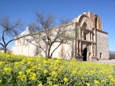 Mission San José de Tumacácori — at Tumacacori National Monument, in southern Arizona. by Matthew A. Lynn